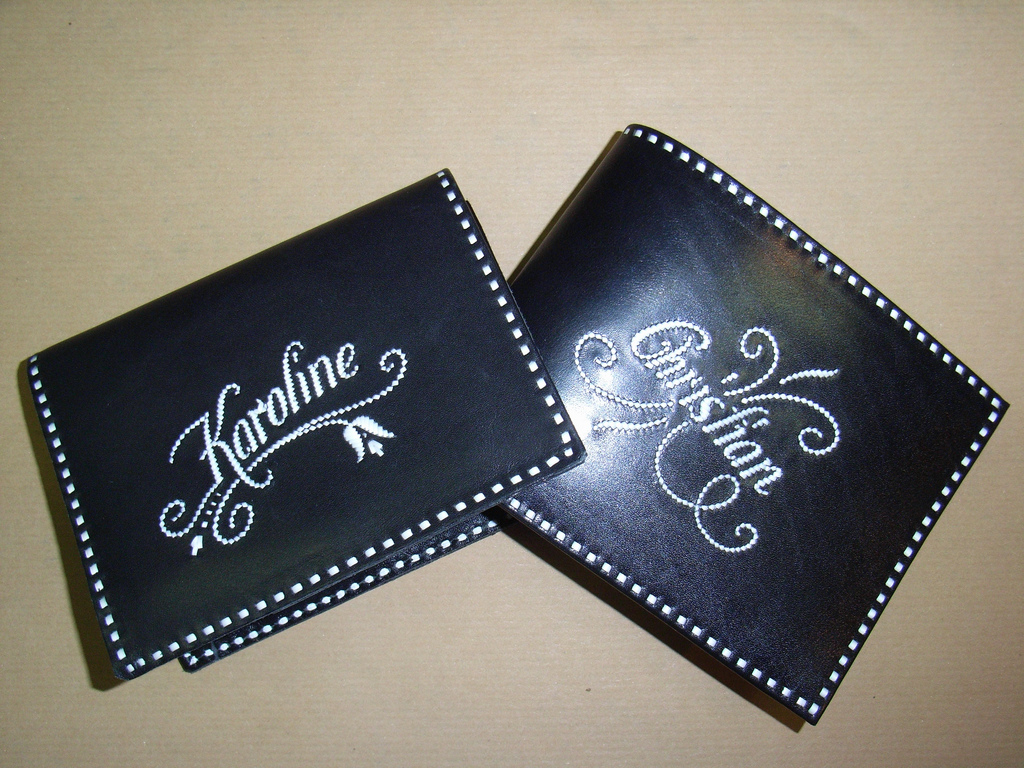 The shafts of Feathers were used for this embroidery Nella Val Sarentino si esercitano ancora tradizionali arti applicate. Con rachidi di penna di pavone gli artigiani ricamano soppratutto portafogli, portachiavi, borse, cinture e tante altre cose. powered by